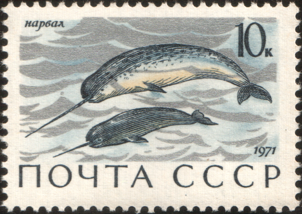 USSR stampː Narwhals. Seriesː Mammals - Inhabitants of the Seas and Oceans Washing the Territory of Russia